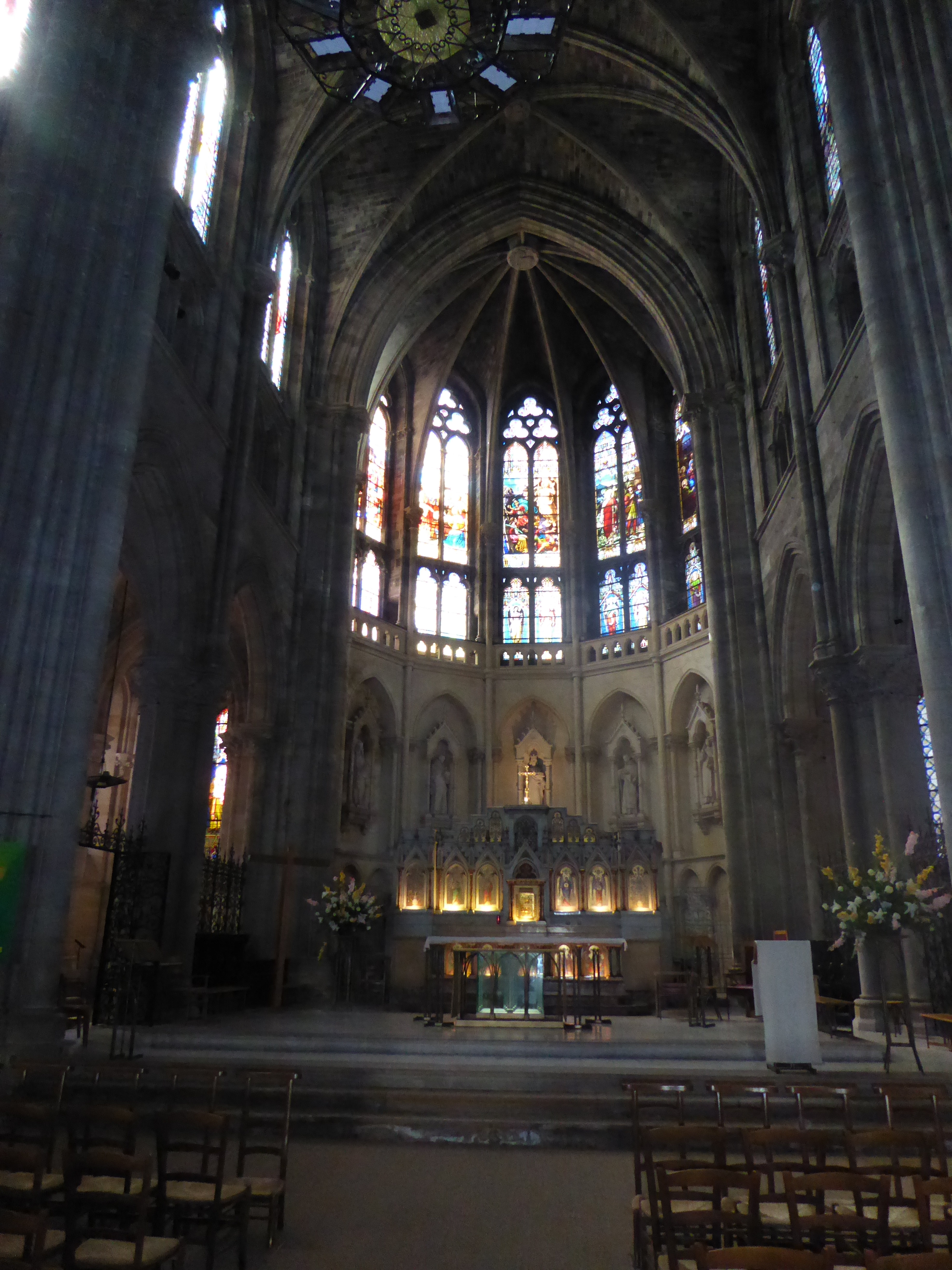 Église Saint-Louis de Bordeaux, Rue Notre-Dame, Chartrons, Bordeaux, France, July 2014